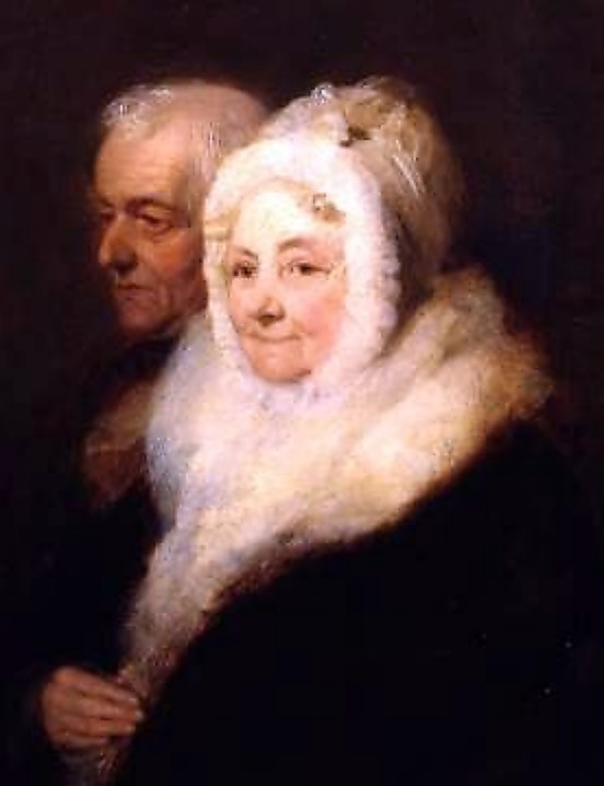 "The Artist's Father and Mother" (detail)